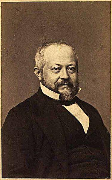 Portrait photograph of the painter Heinrich Hansen.